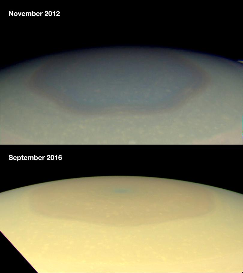 These two natural color images from NASA's Cassini spacecraft show the changing appearance of Saturn's north polar region between 2012 and 2016. Scientists are investigating potential causes for the change in color of the region inside the north-polar hexagon on Saturn. The color change is thought to be an effect of Saturn's seasons. In particular, the change from a bluish color to a more golden hue may be due to the increased production of photochemical hazes in the atmosphere as the north pole approaches summer solstice in May 2017. Researchers think the hexagon, which is a six-sided jetstream, might act as a barrier that prevents haze particles produced outside it from entering. During the polar winter night between November 1995 and August 2009, Saturn's north polar atmosphere became clear of aerosols produced by photochemical reactions -- reactions involving sunlight and the atmosphere. Since the planet experienced equinox in August 2009, the polar atmosphere has been basking in continuous sunshine, and aerosols are being produced inside of the hexagon, around the north pole, making the polar atmosphere appear hazy today. Other effects, including changes in atmospheric circulation, could also be playing a role. Scientists think seasonally shifting patterns of solar heating probably influence the winds in the polar regions. Both images were taken by the Cassini wide-angle camera. The Cassini mission is a cooperative project of NASA, ESA (the European Space Agency) and the Italian Space Agency. The Jet Propulsion Laboratory, a division of the California Institute of Technology in Pasadena, manages the mission for NASA's Science Mission Directorate, Washington. The Cassini orbiter and its two onboard cameras were designed, developed and assembled at JPL. The imaging operations center is based at the Space Science Institute in Boulder, Colorado. For more information about the Cassini-Huygens mission visit and The Cassini imaging team homepage is at